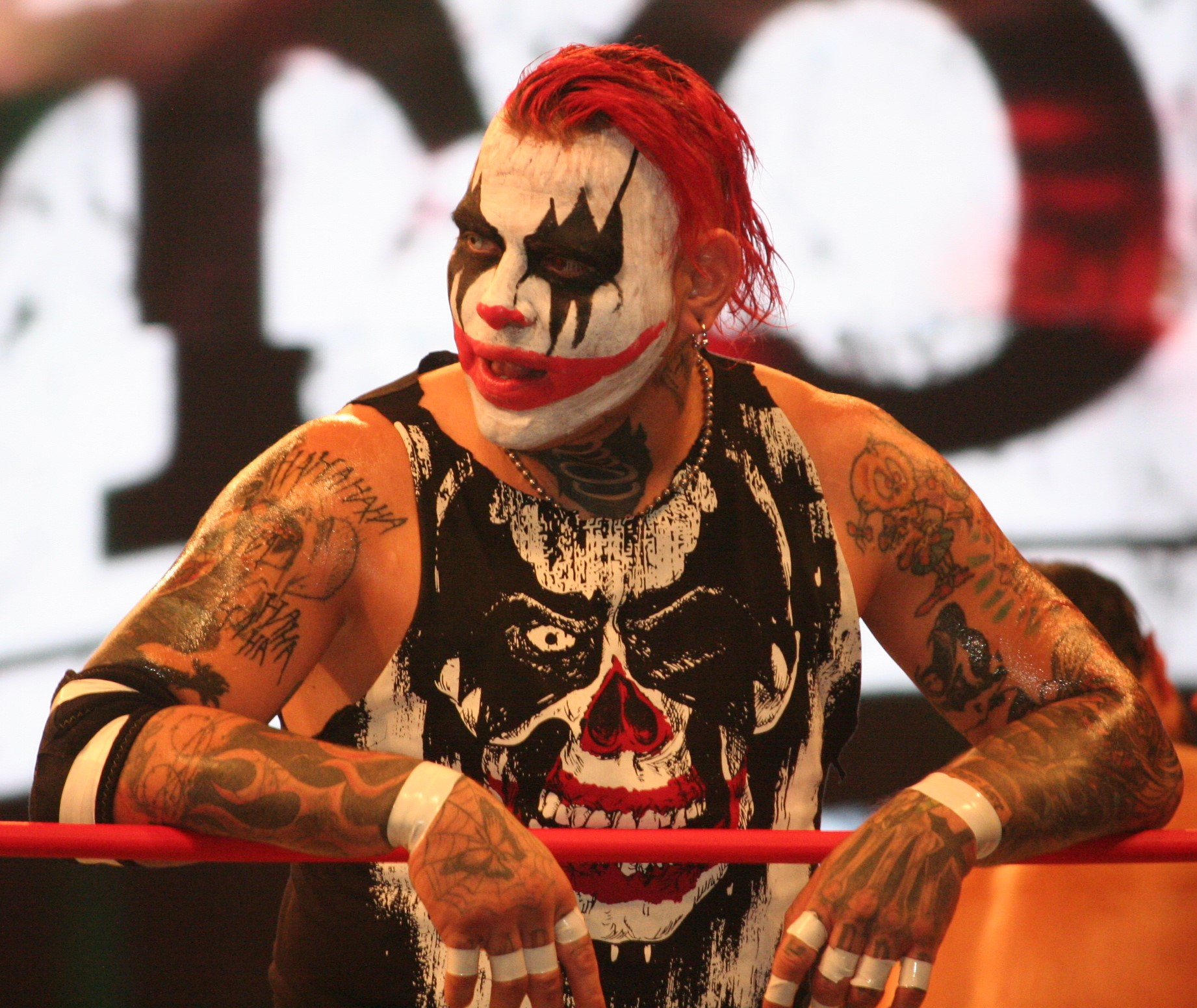 Pagano at Impact Wrestling's Bound for Glory event in November 2017.